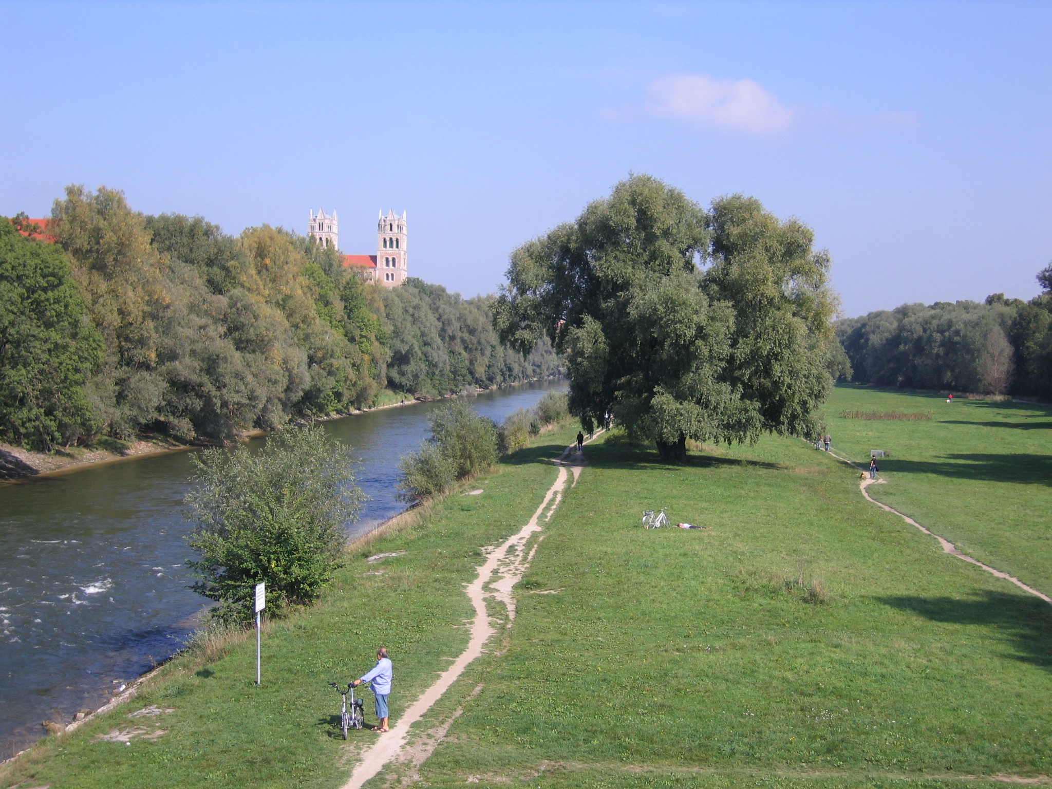 Isar river in Munich downstream of Wittelsbacherbrücke, in the center the group of trees which later became the Weideninsel, on the left side in the rear St. Maximilian.